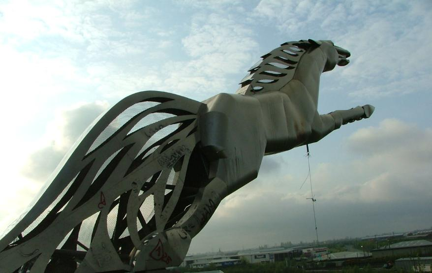 A 21 ft high, 45ft long stainless steel sculpture of the eight legged mythological horse Sleipnir by Steve Field, Wednesbury